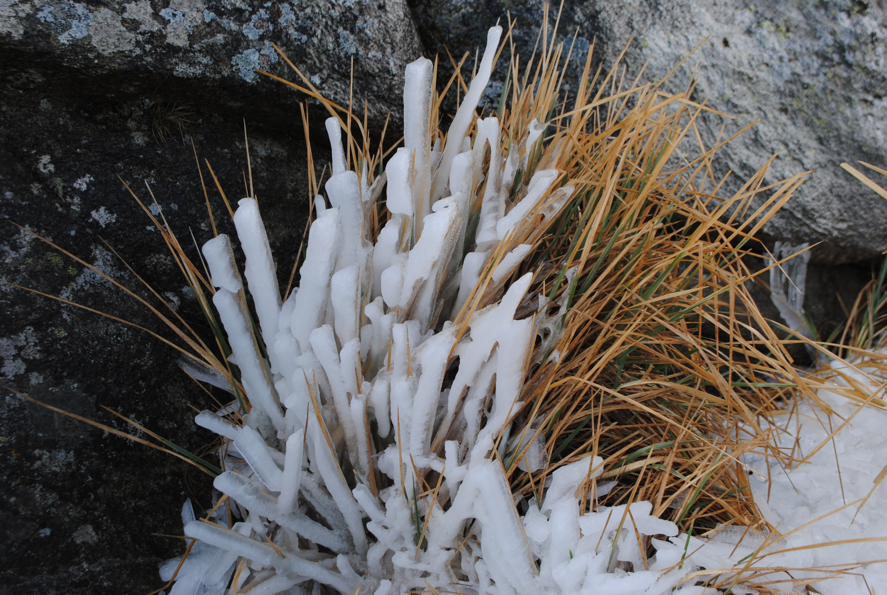 Grass near the top of Champaquí after snow storm